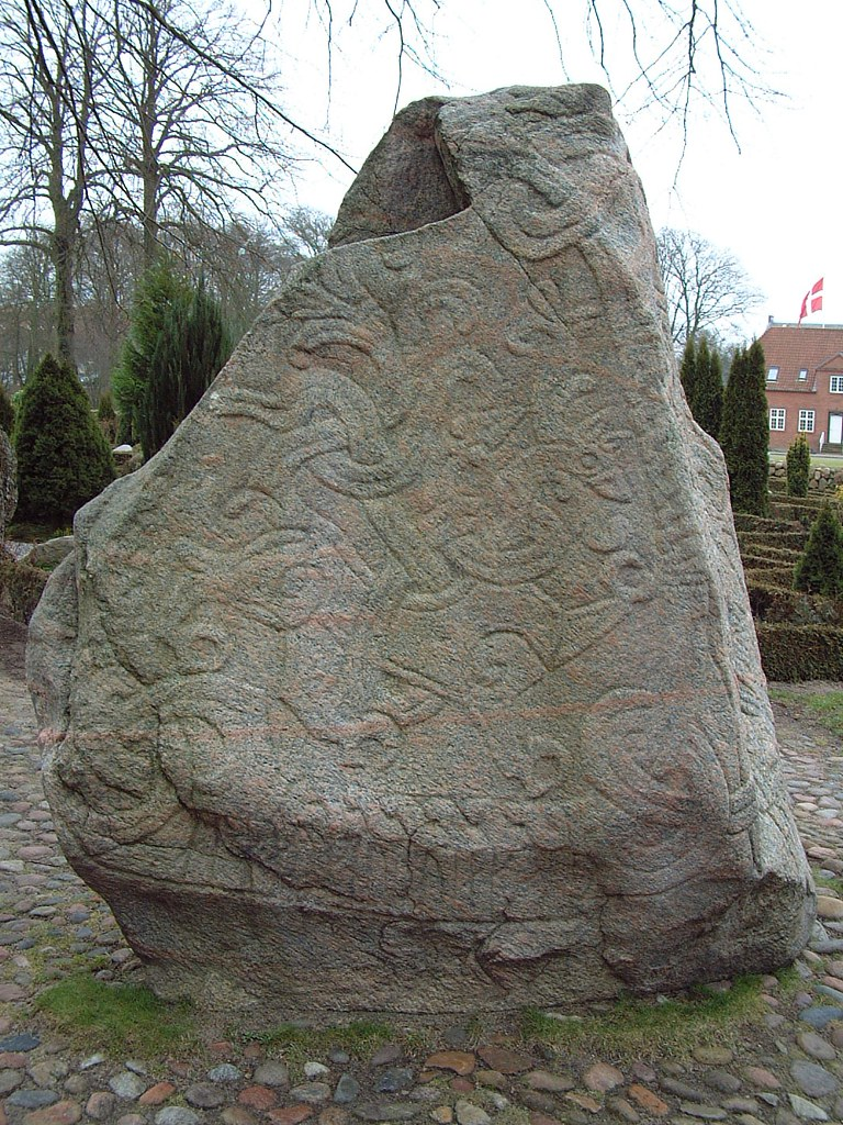 Harald Bluetooth's stone; side B: animal painting and Norway claim